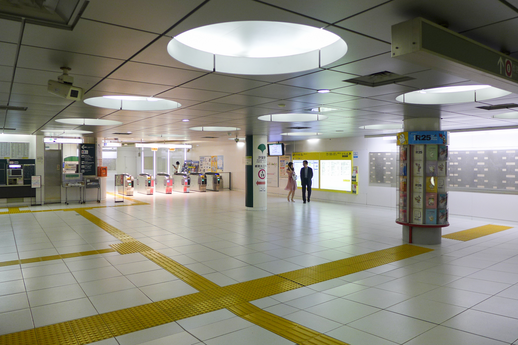 Shiodome Station Oedo Line Concourse